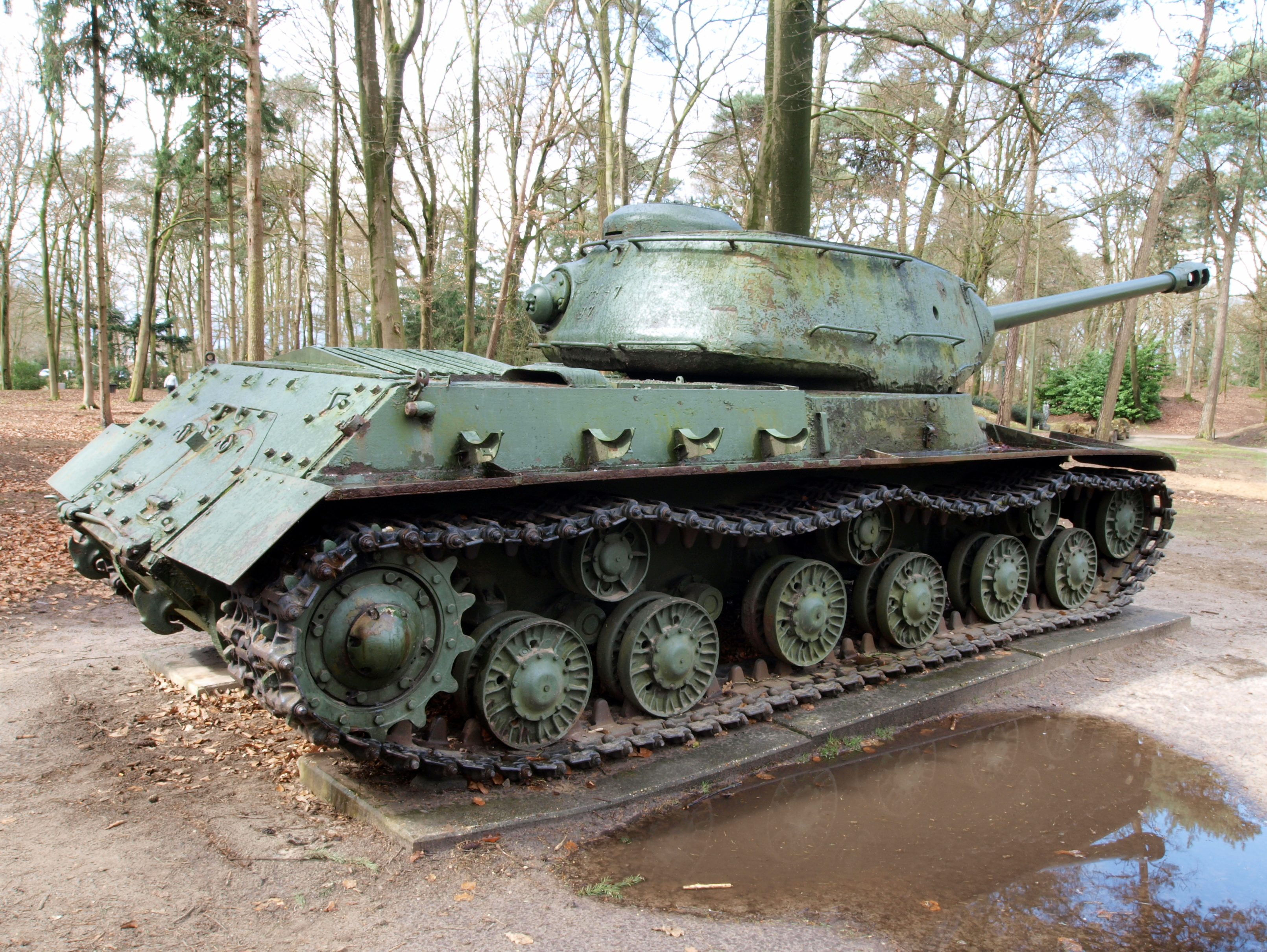 Photographed at the Marshallmuseum - Liberty Park - Oorlogsmuseum Overloon, The Netherlands. OLYMPUS DIGITAL CAMERA